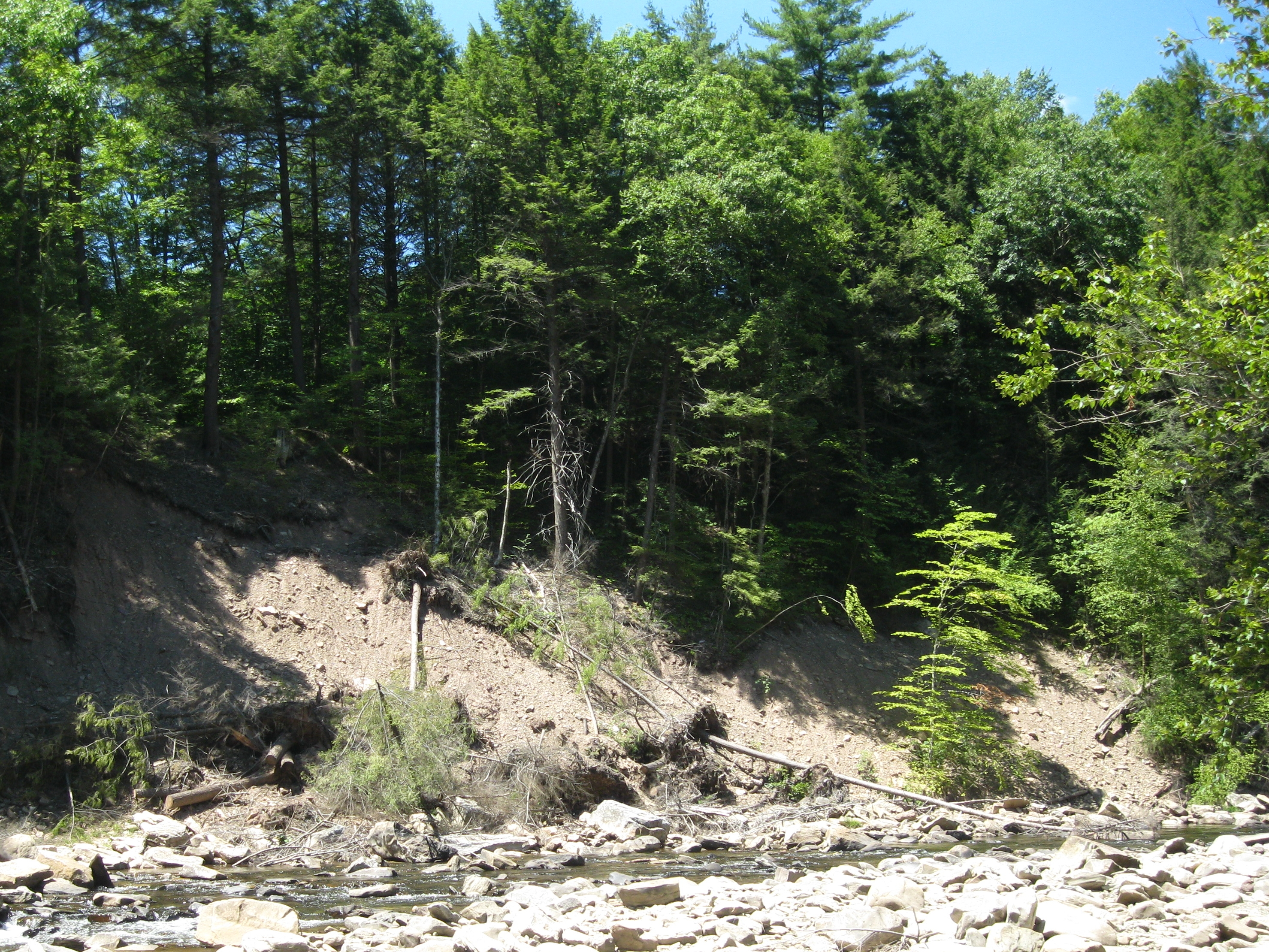 Landslides and erosion after Hurricane Irene and Tropical Storm Lee flooding along Loyalsock Creek in Worlds End State Park, Sullivan County, Pennsylvania, USA